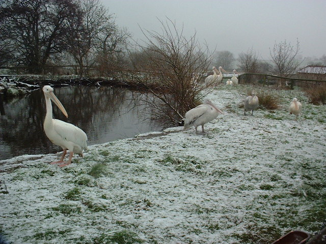 Pelicans at Blackbrook Zoological Park, Winkhill, Staffordshire, England.